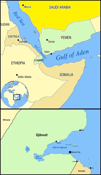 Map of the Gulf of Tadjoura